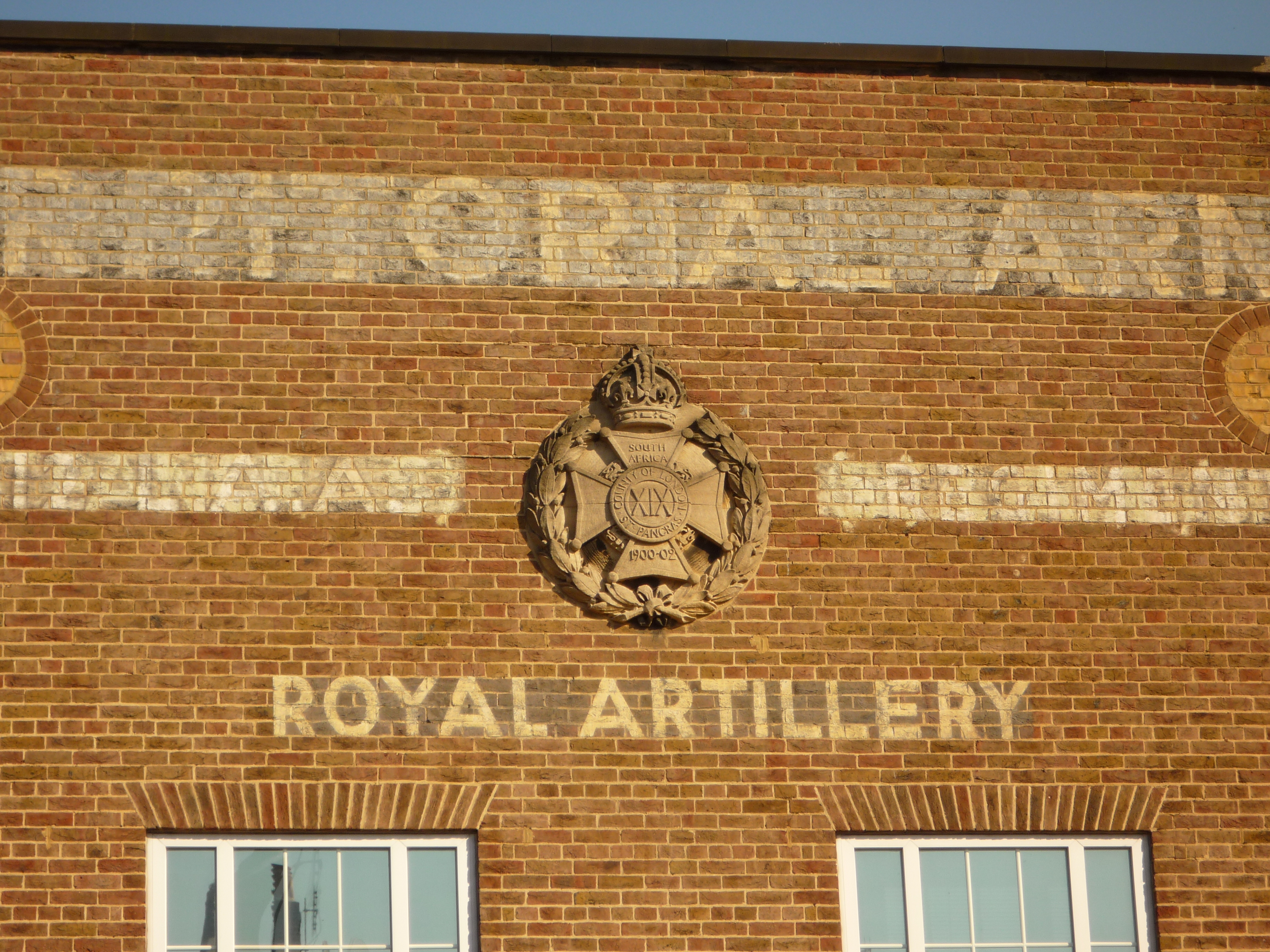 Detail of the front of the drill hall of the 33rd Searchlight Regiment (formerly 19th London Regiment) in Albany Street, London, showing the unit's various titles painted out